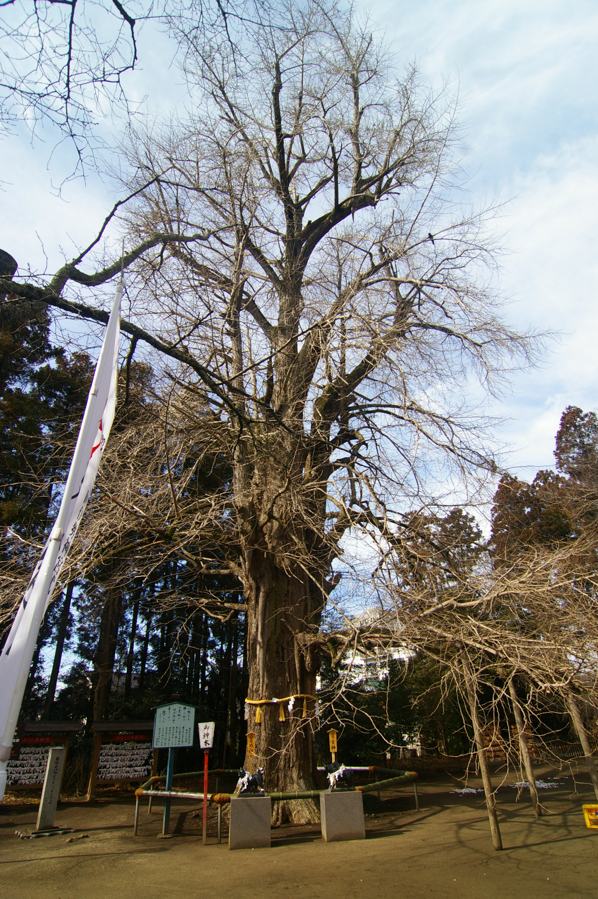 Ohatuki-ichō is a famous Ginkgo biloba tree in Mito-Hachiman-gū, Mito, Ibaraki Prefecture, Japan.